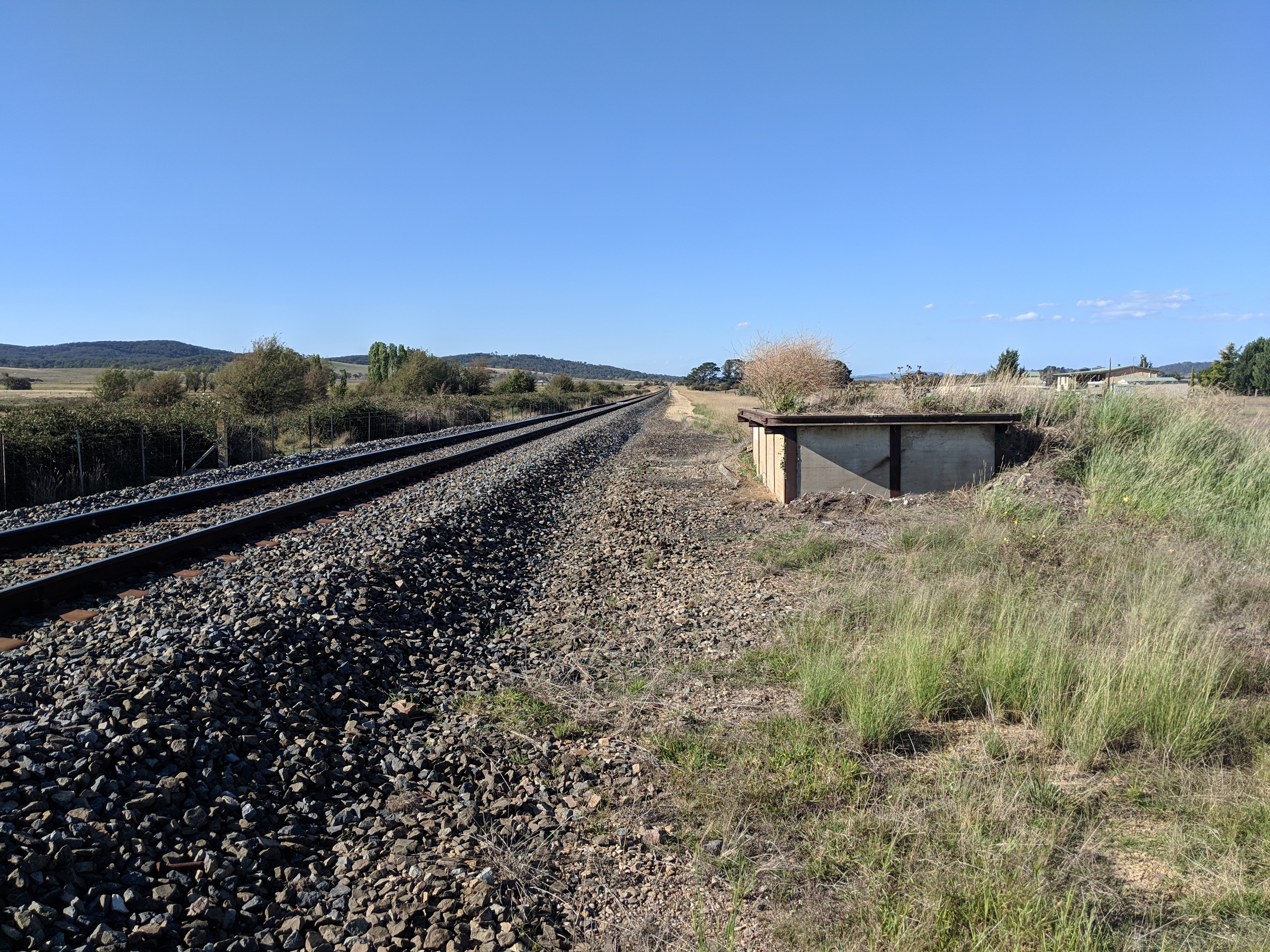 Former Komungla station, Tirrannaville, New South Wales